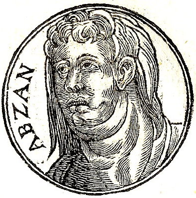 Abesan appears in the Bible as one of the Judges of Israel. Very little is said about him.